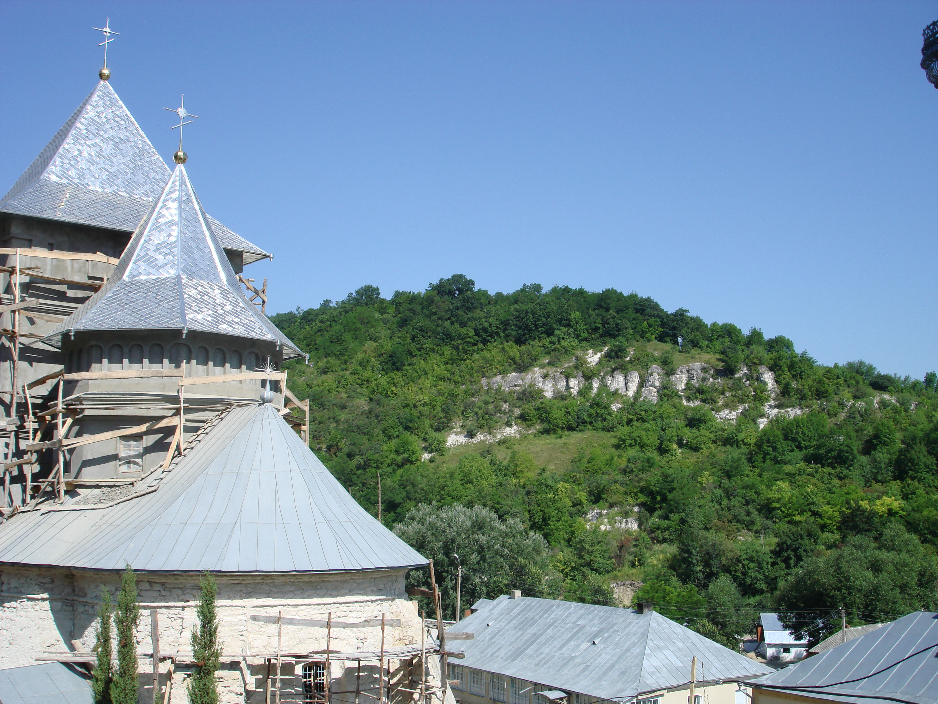 Călărăşeuca monastery, Moldova